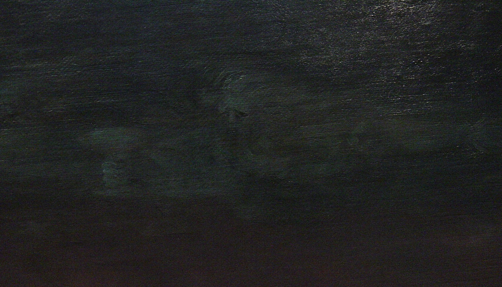 The Voyage of Life Manhood